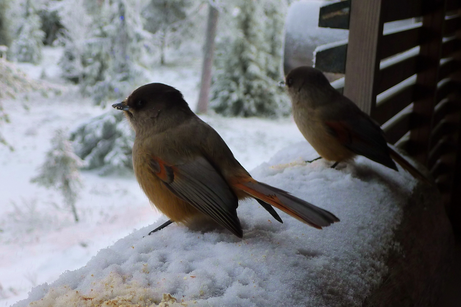 Siberian Jay in Ruka, northern Finland